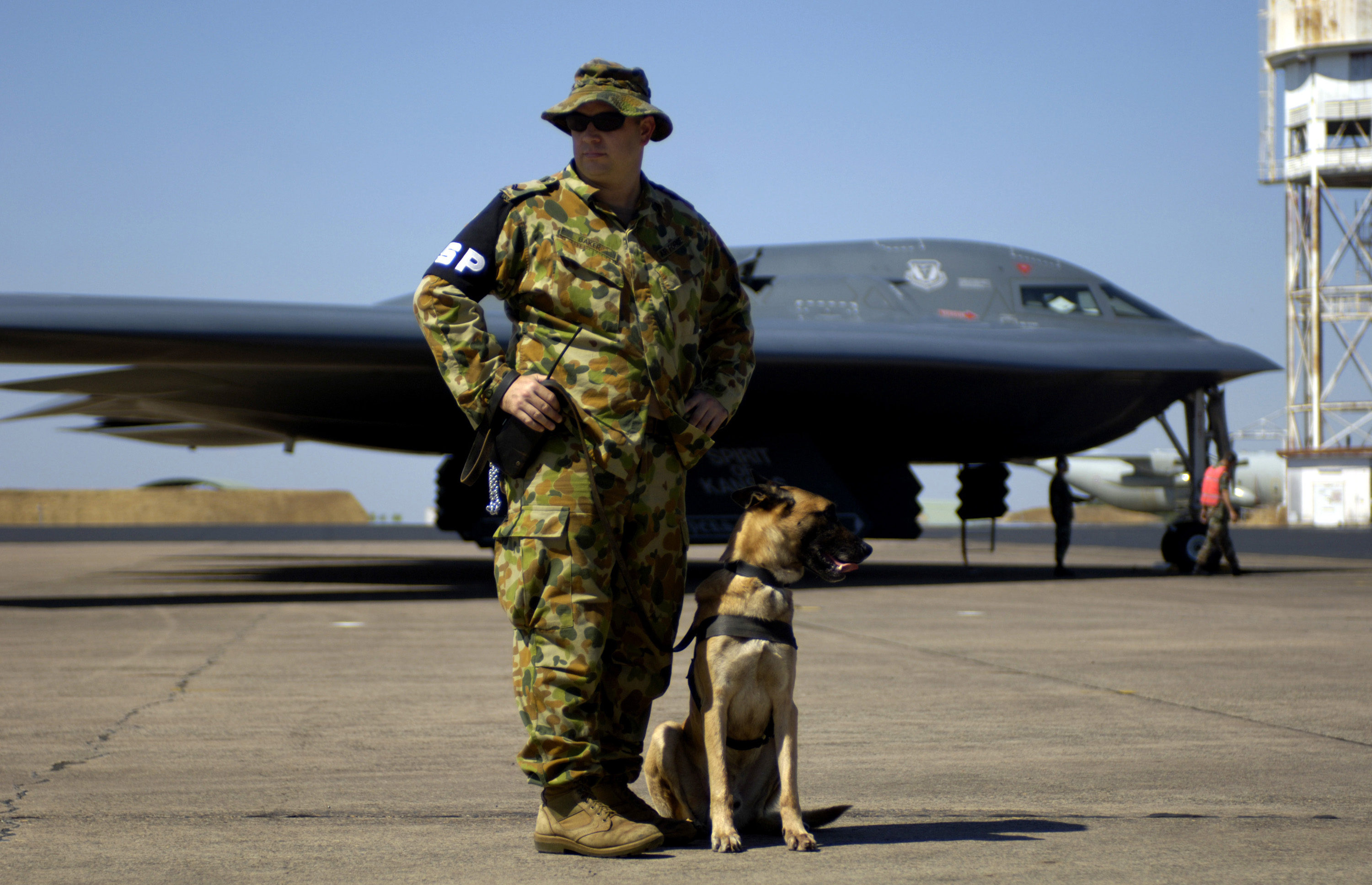 Australian army Cpl. Tony Baker and Axle keep watch over a B-2 Spirit stealth bomber on July 27 at Royal Australian Air Force Base Darwin during exercise Green Lightning. The exercise tests U.S. capabilities and provides operational familiarity in the region for the Pacific bomber presence while also serving to enhance relations with the Australians. Corporal Baker is a K-9 handler with the Royal Australian Defense Force.